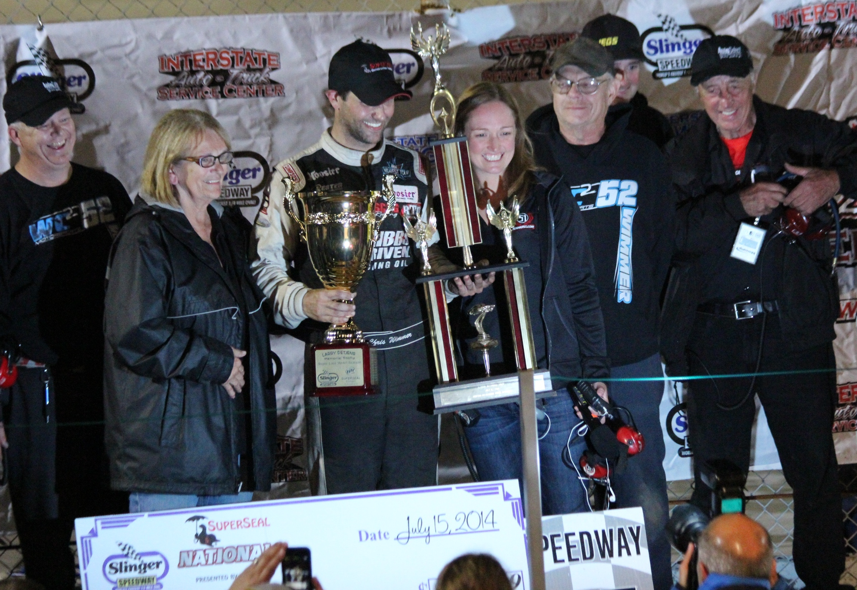 Chris Wimmer holds two trophies after winning the 2014 Slinger Nationals. He has the winner's trophy on the left. On the right is the trophy that his late uncle Larry Detjens won in the inaugural annual Slinger Nationals in 1980. Wimmer poses with his crew, including his brother Scott Wimmer (2nd from right in black hat with yellow trim) and wife Jana Winner (middle).